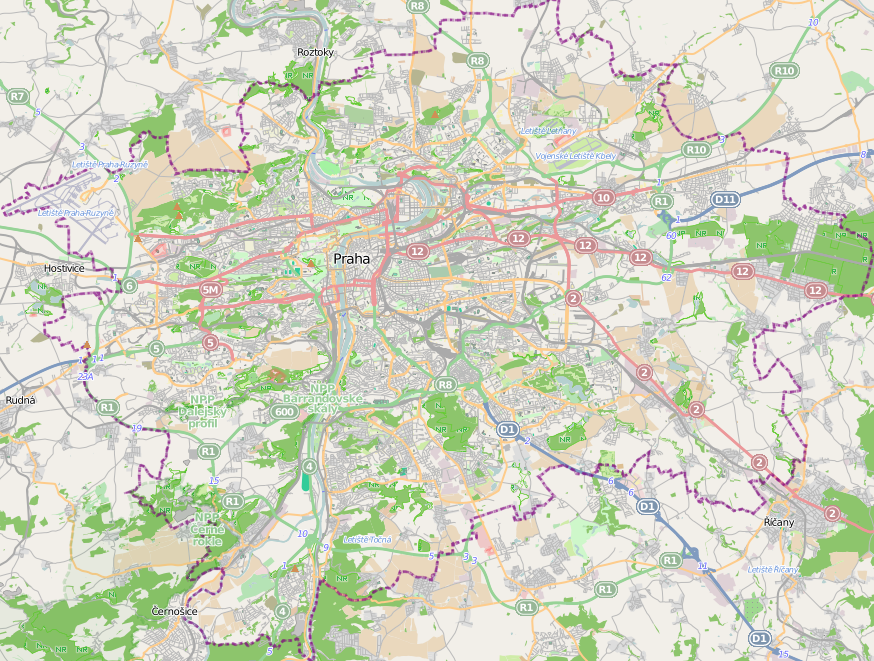 Geolocation map of Prague, Czech Republic. Limits: top = 50,177 bottom = 49,942 left = 14,223 right = 14,707